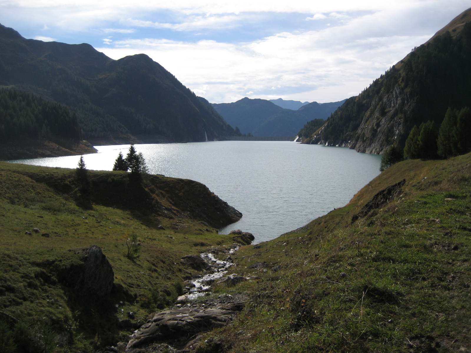 Lago di Luzzone